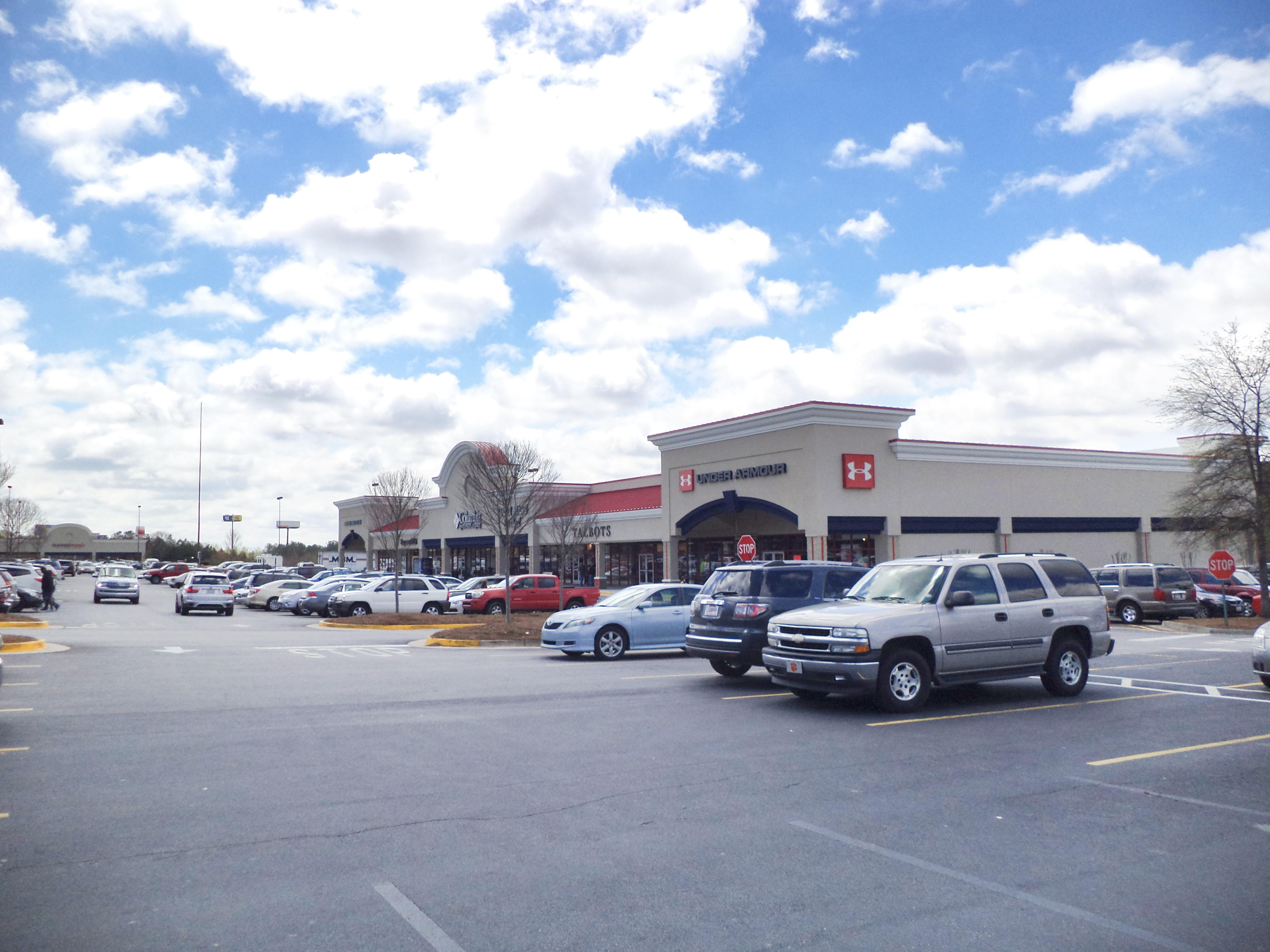 Tanger Outlets, Locust Grove, Henry County, Georgia, closest store is an Under Armour outlet store.